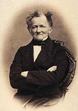 Danish bishop Gerhard Peter Brammer